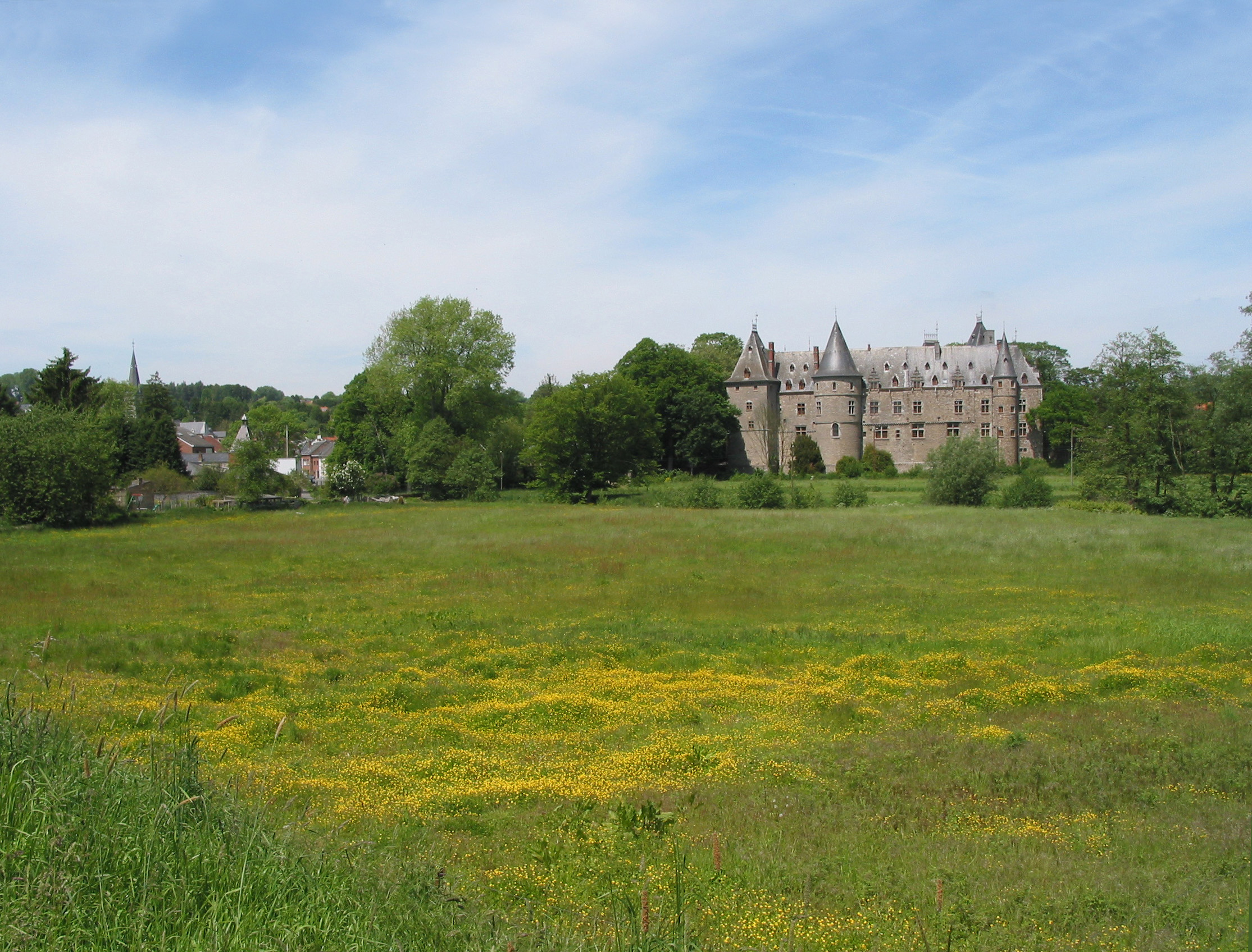 Ham-sur-Heure (Belgium), the previous Princes de Mérode castle (actualy town hall).